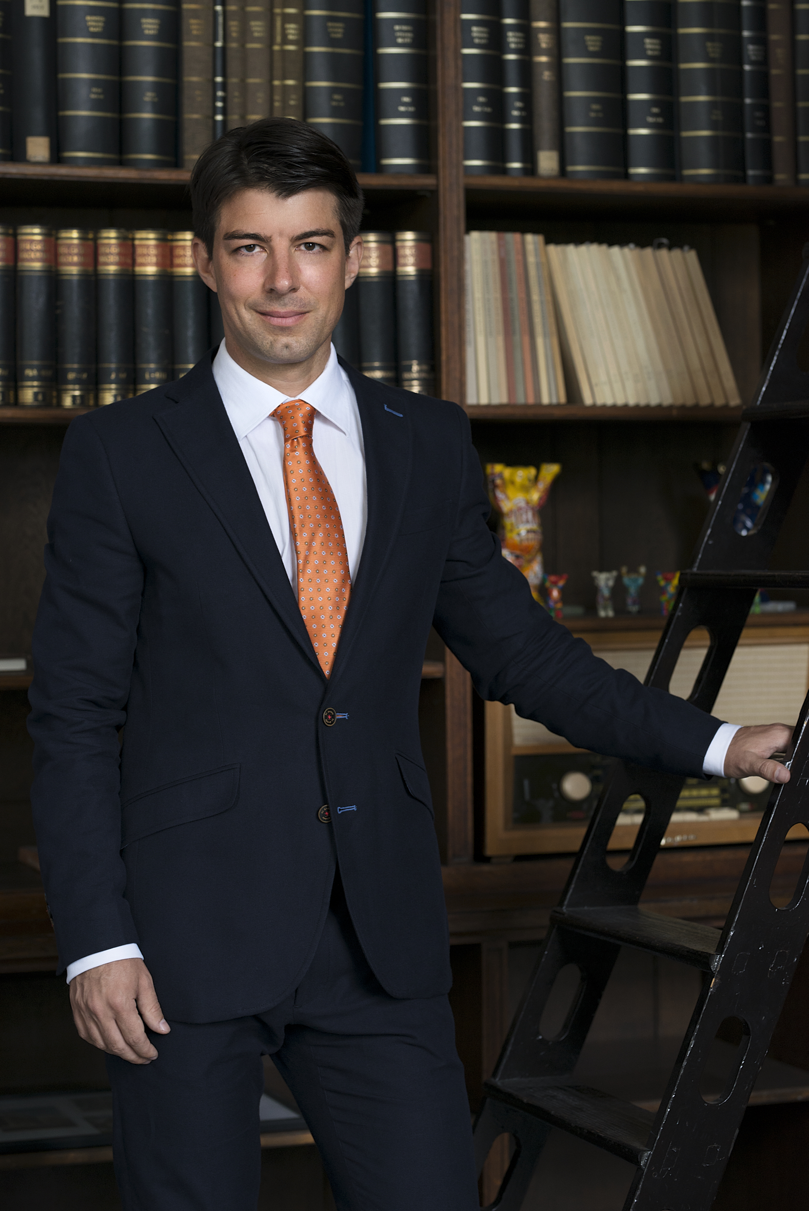 Rector and Dean at ESCP Europe - Andreas Kaplan